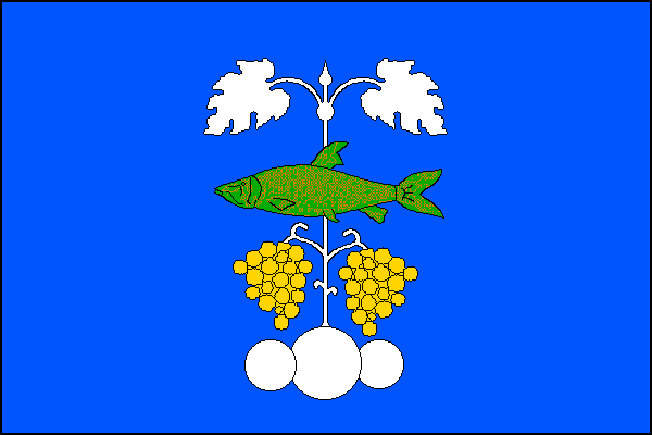 Municipal flag of Pavlov village, Břeclav District, Czech Republic.